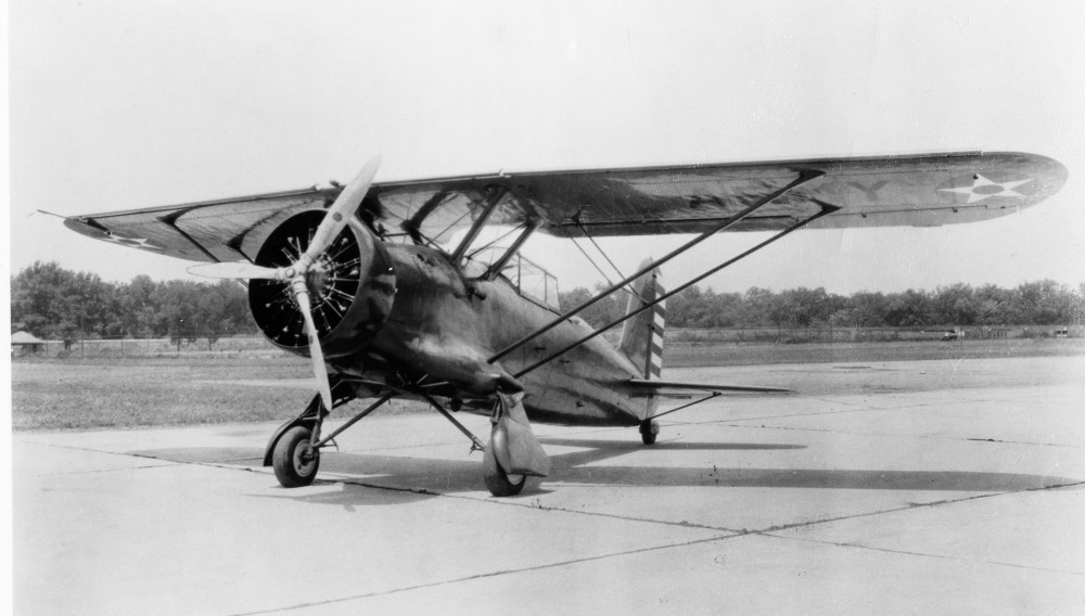 PictionID:40972747 - Title:Curtiss YO-40B - Catalog:15_002764 - Filename:15_002764.tif - Image from the Charles Daniels Photo Collection album "US Army Aircraft."----PLEASE TAG this image with any information you know about it, so that we can permanently store this data with the original image file in our Digital Asset Management System.----SOURCE INSTITUTION: San Diego Air and Space Museum Archive